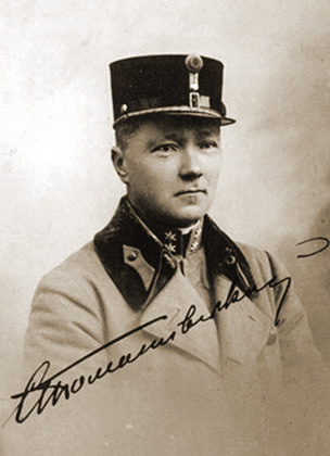 Stepan Tomashivsky, Ukr. Степан Томашівський (1875 - 1930) Ukrainian historian, docent of Lviv University and Jagiellonian University. Here in an uniform of Ukrainian Sich rifleman.